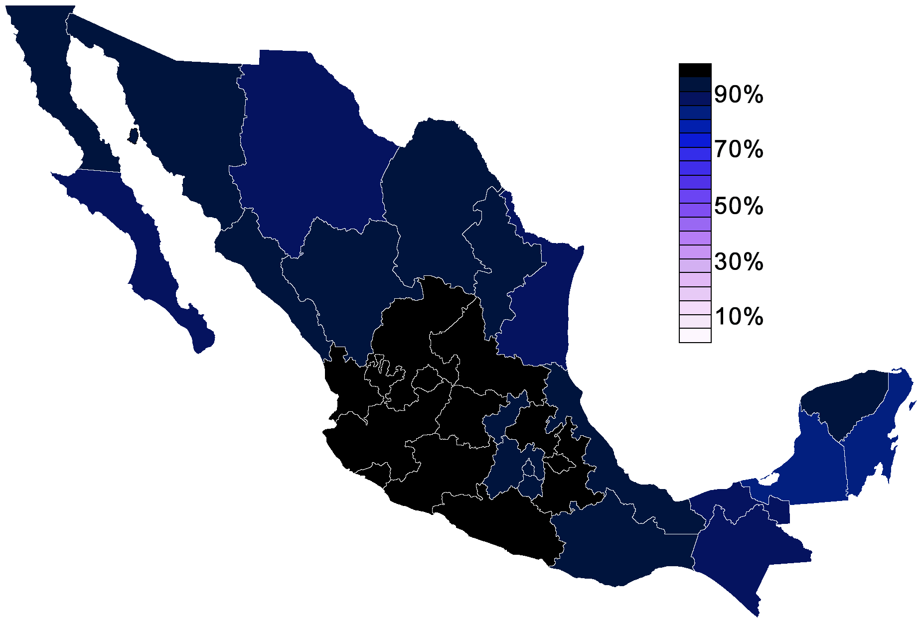 Religious beliefs in Mexico states.